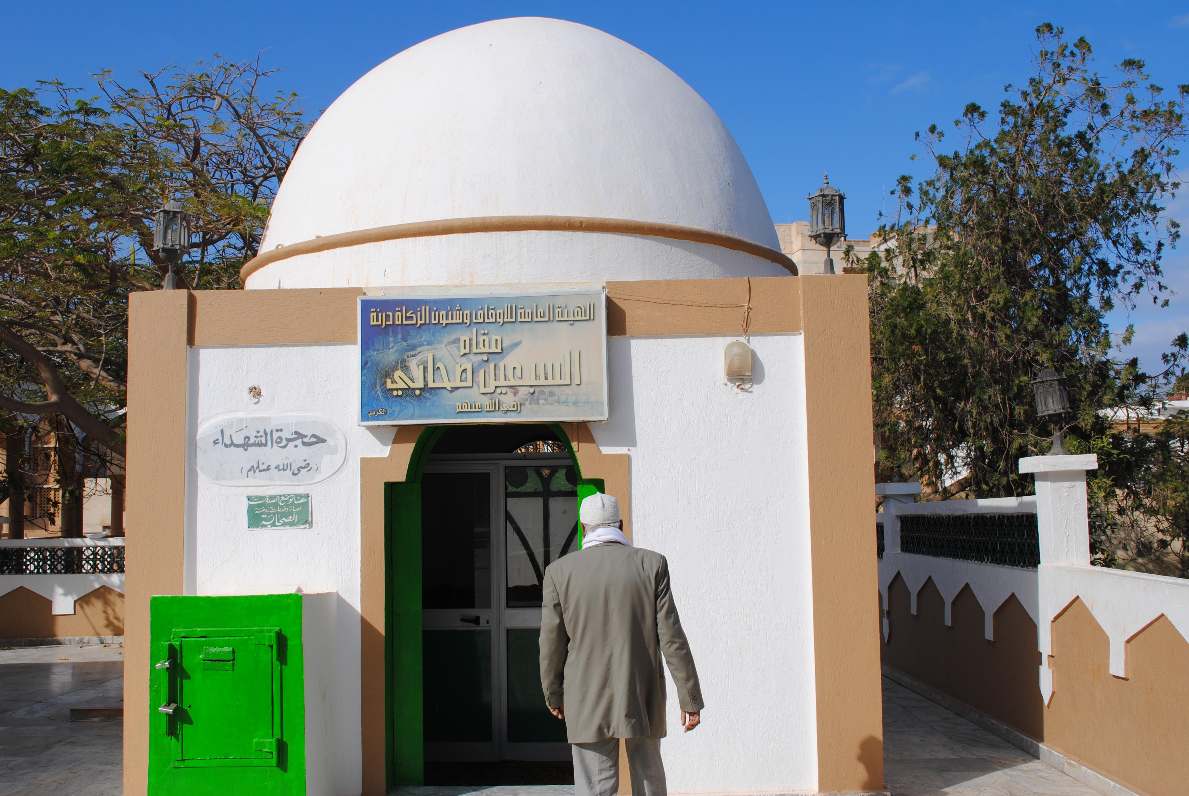 Shrine of 70 Sahaba before destruction